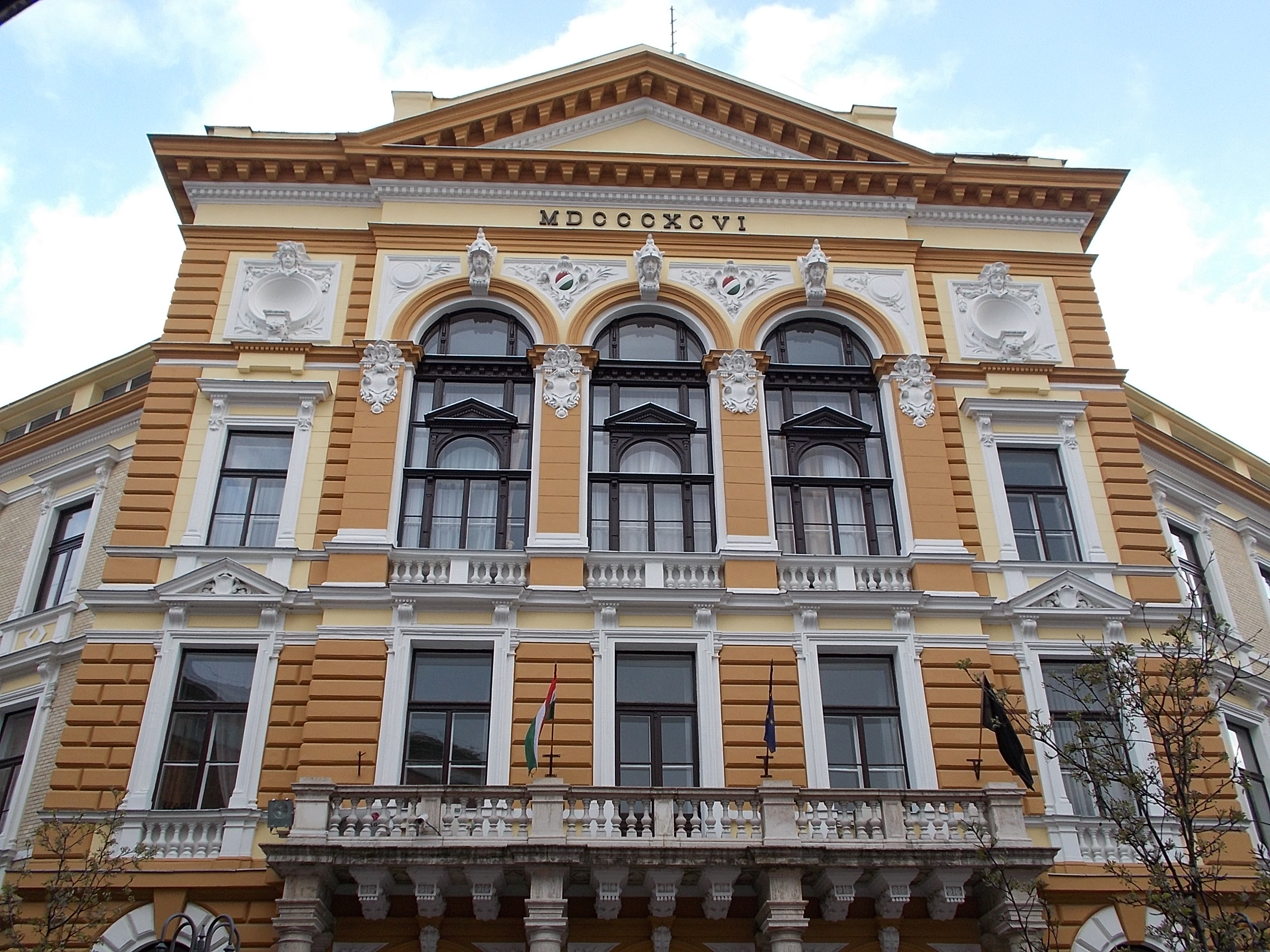 Óbuda University. Kandó Kálmán Faculty of Electrical Engineering- 17 Tavaszmező Street, Csarnok neighbourhood, Budapest District VIII.